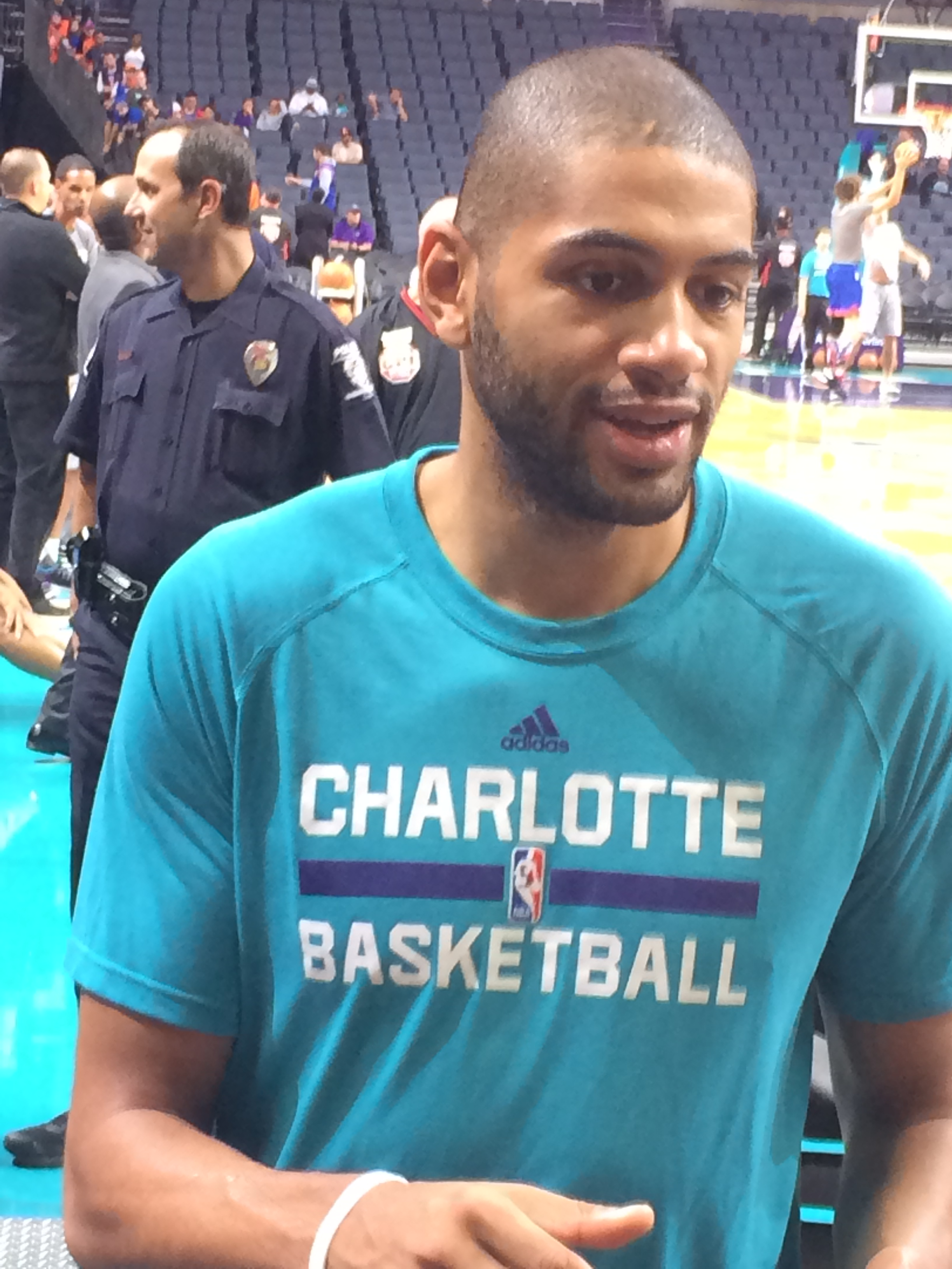 Nicolas Batum before a Charlotte Hornets on November 11th, 2015.